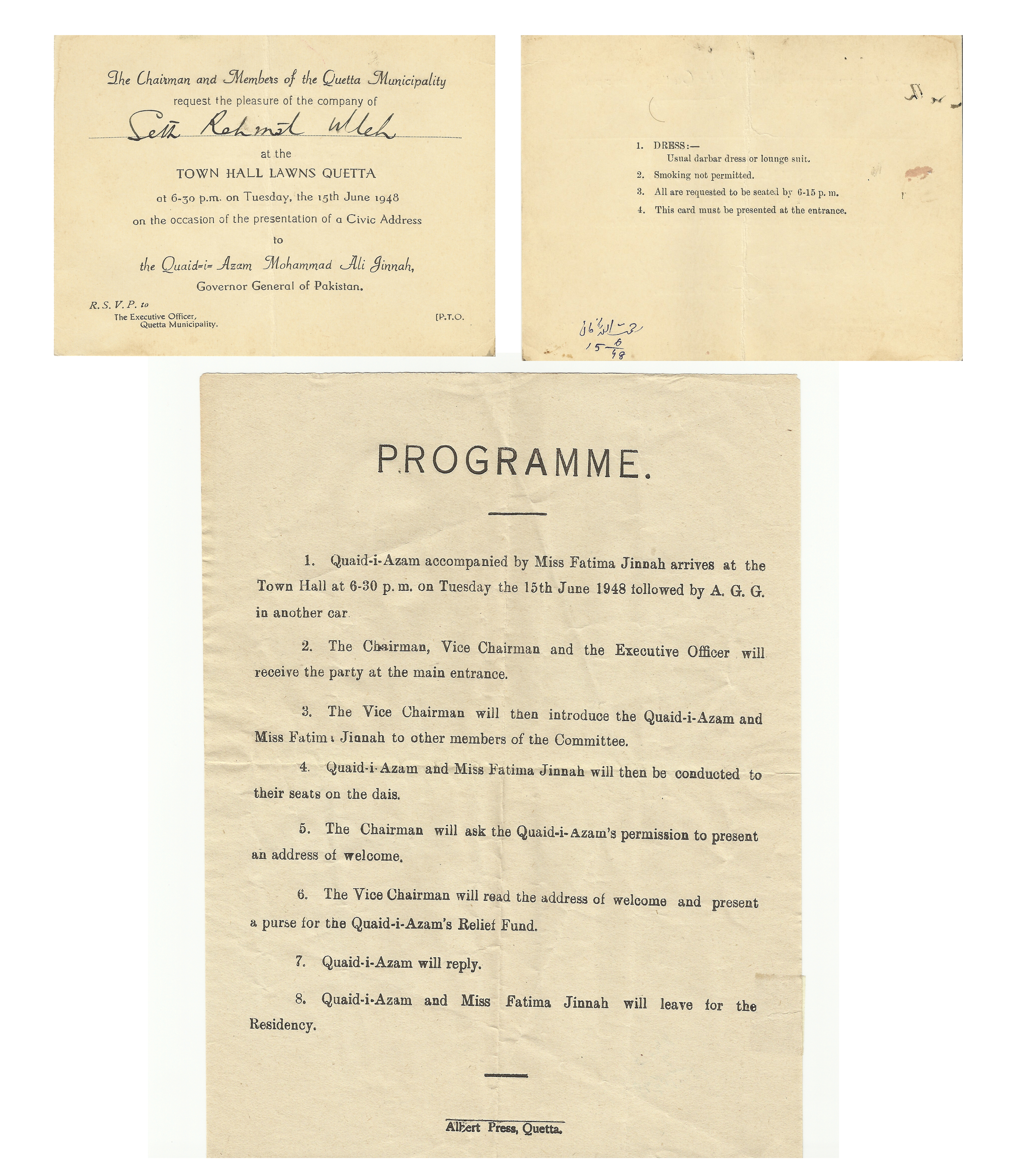 Invitation card in-respect of Rehmatullah Khan Durrani for Quaid-e-Azam programme 15-6-1948